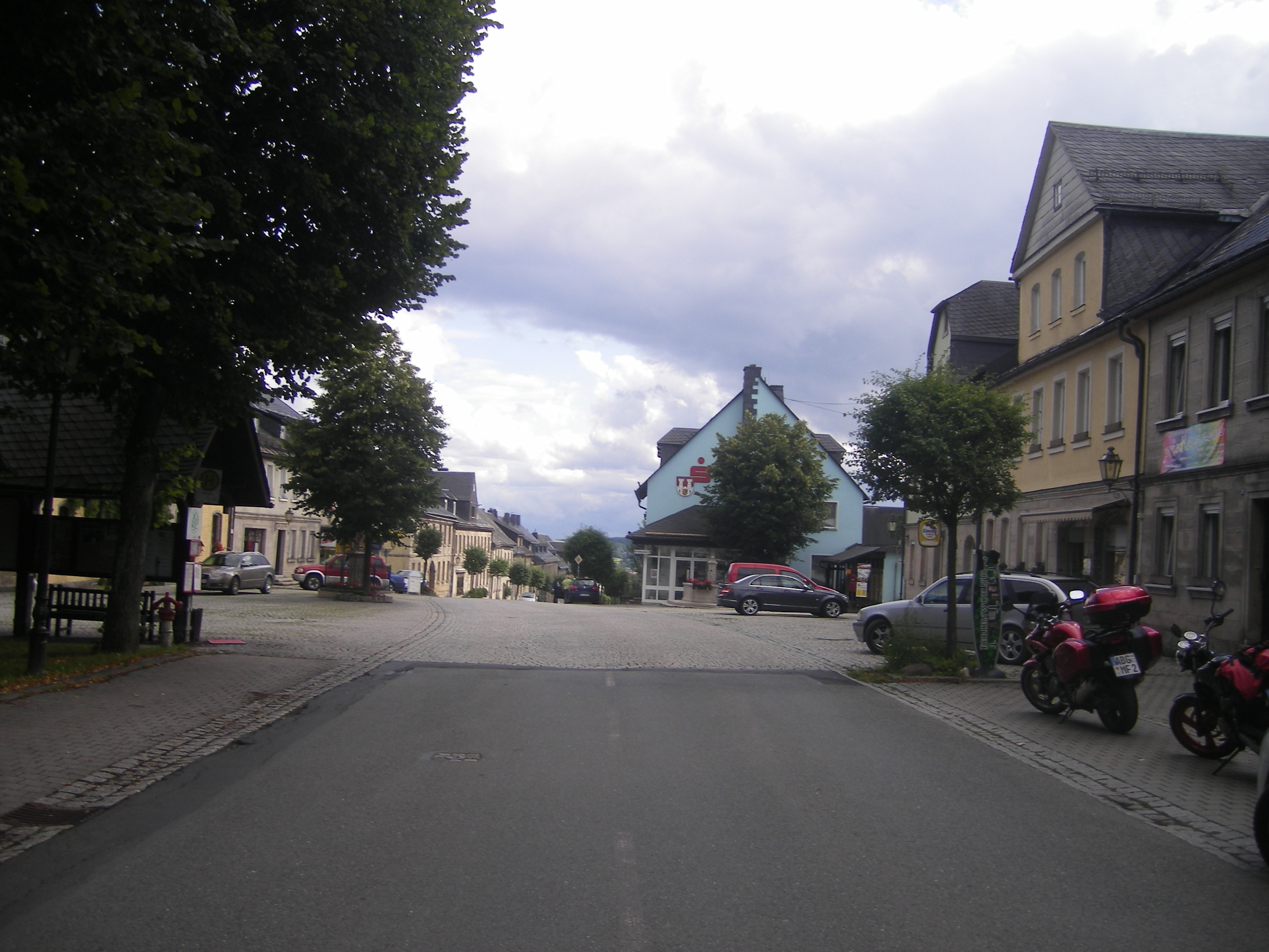 Main street in Teuschnitz, near Kronach/Bavaria